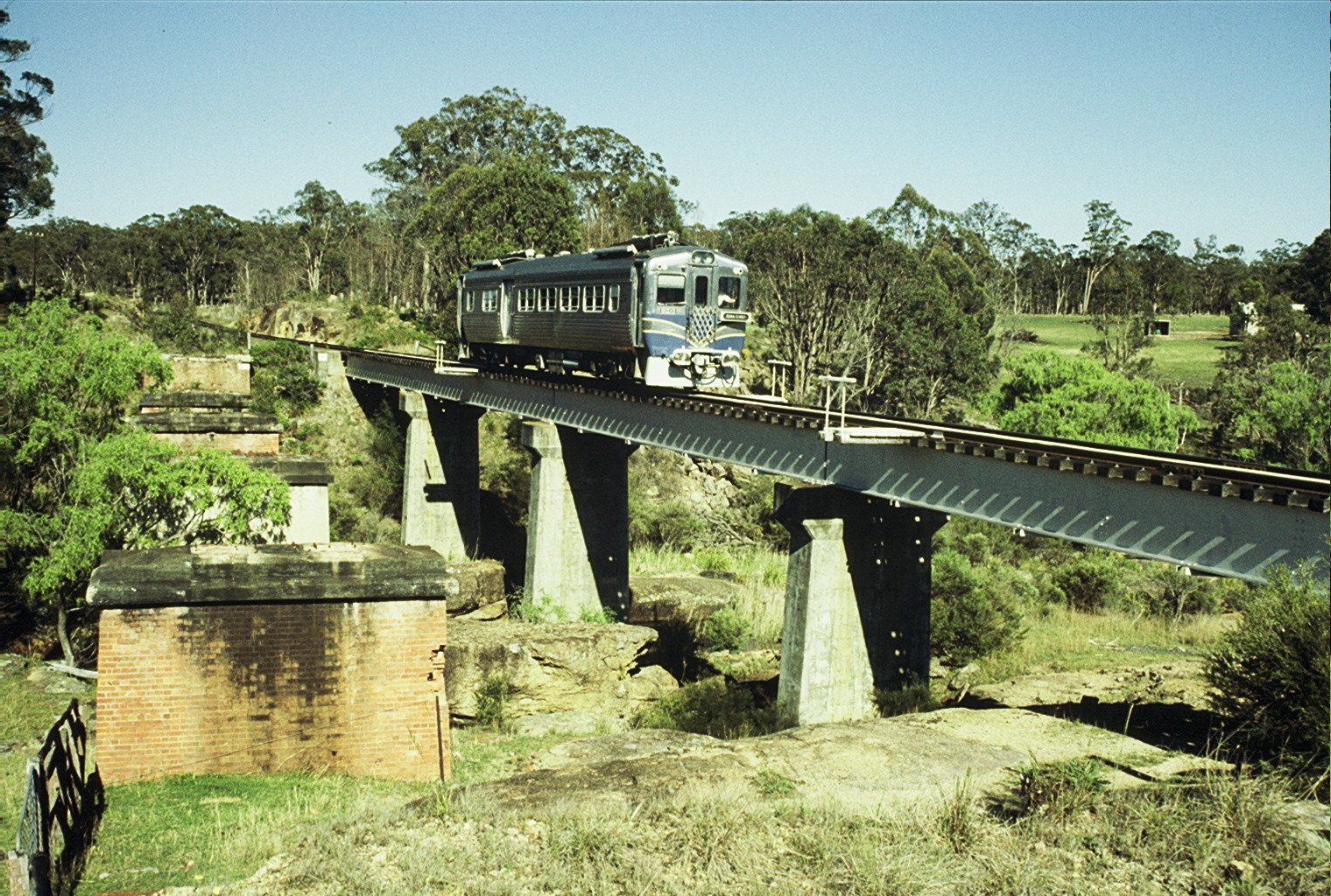 QR RM 1901 on the Wallangarra line south of Warwick, 1987. Note the brick piers from the original bridge.